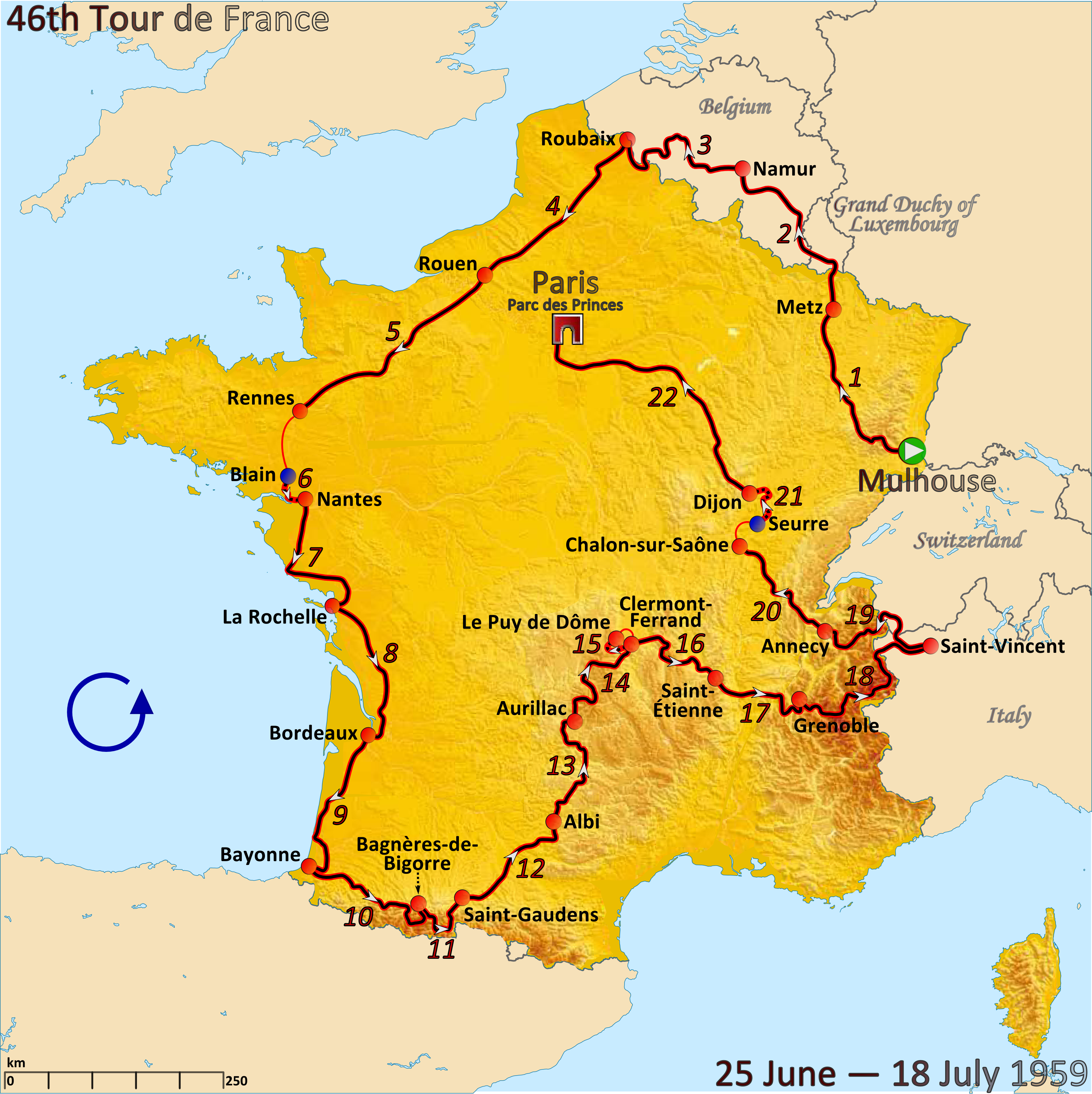 Map of the 1959 Tour de France created in Inkscape using accurate stage maps from touratlas.nl